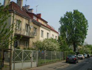 Żoliborz Dziennikarski